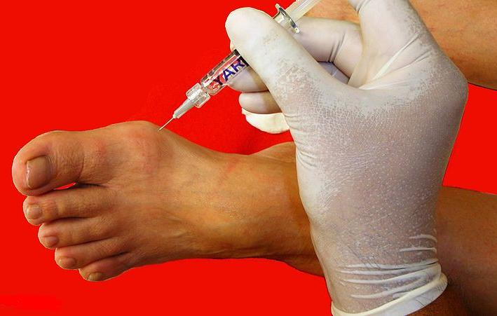 Injection on big toe